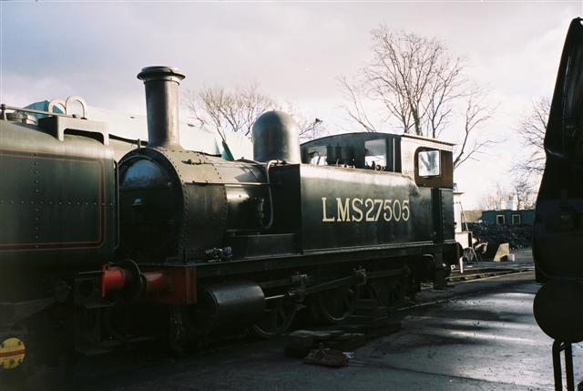 LMS NLR Class 75 tank at Sheffield Park